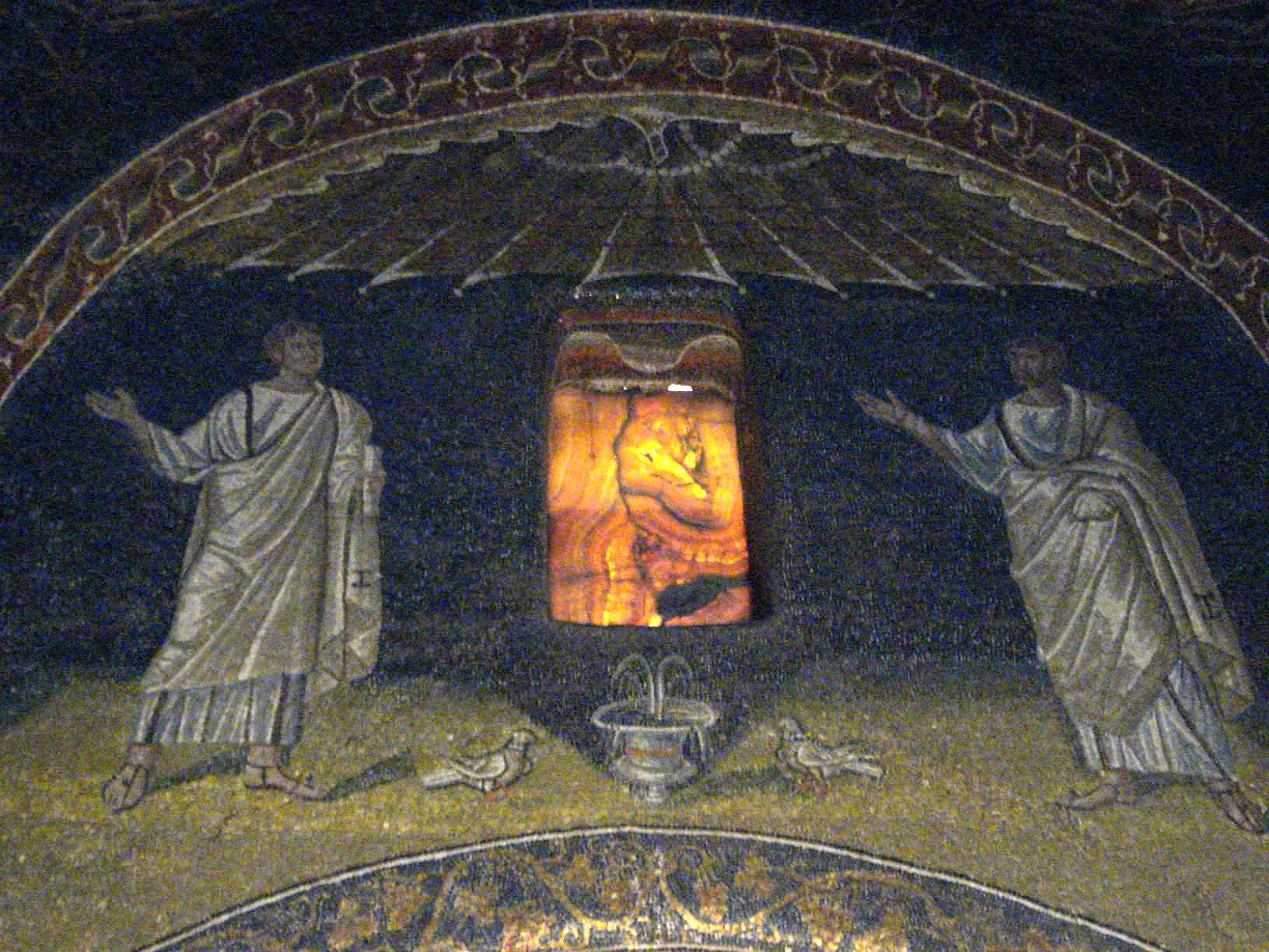 Apostles in lunette